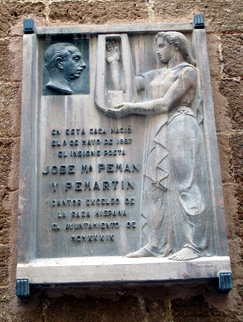 photo taken of the Tombstone commemorative Pemán House birthplace